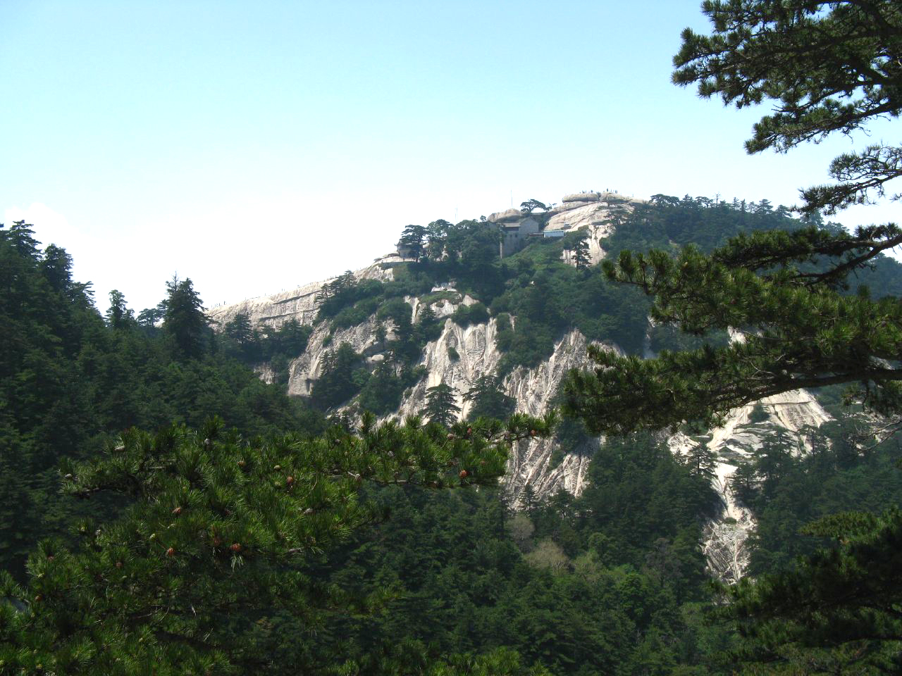 Pinus tabuliformis. Hua Shan, Shaanxi.